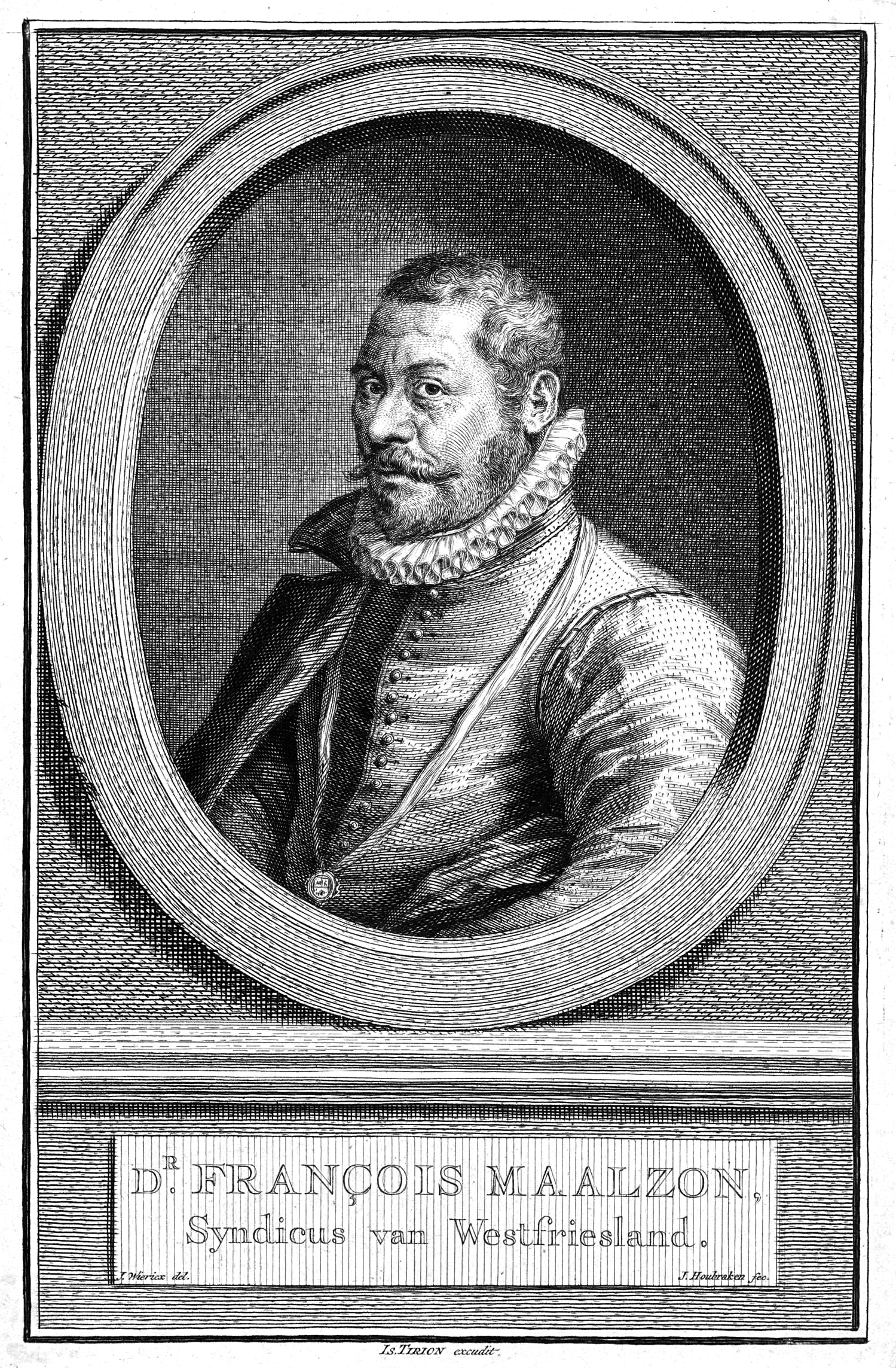 François Maelson engraving on paper 1749-1759